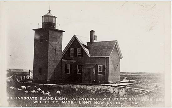 Postcard featuring the Billingsgate Island lighthouse, Massachusetts